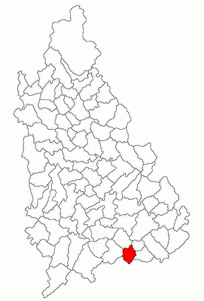 Locator map of Brezoaele commune, Dâmbovița County, Romania